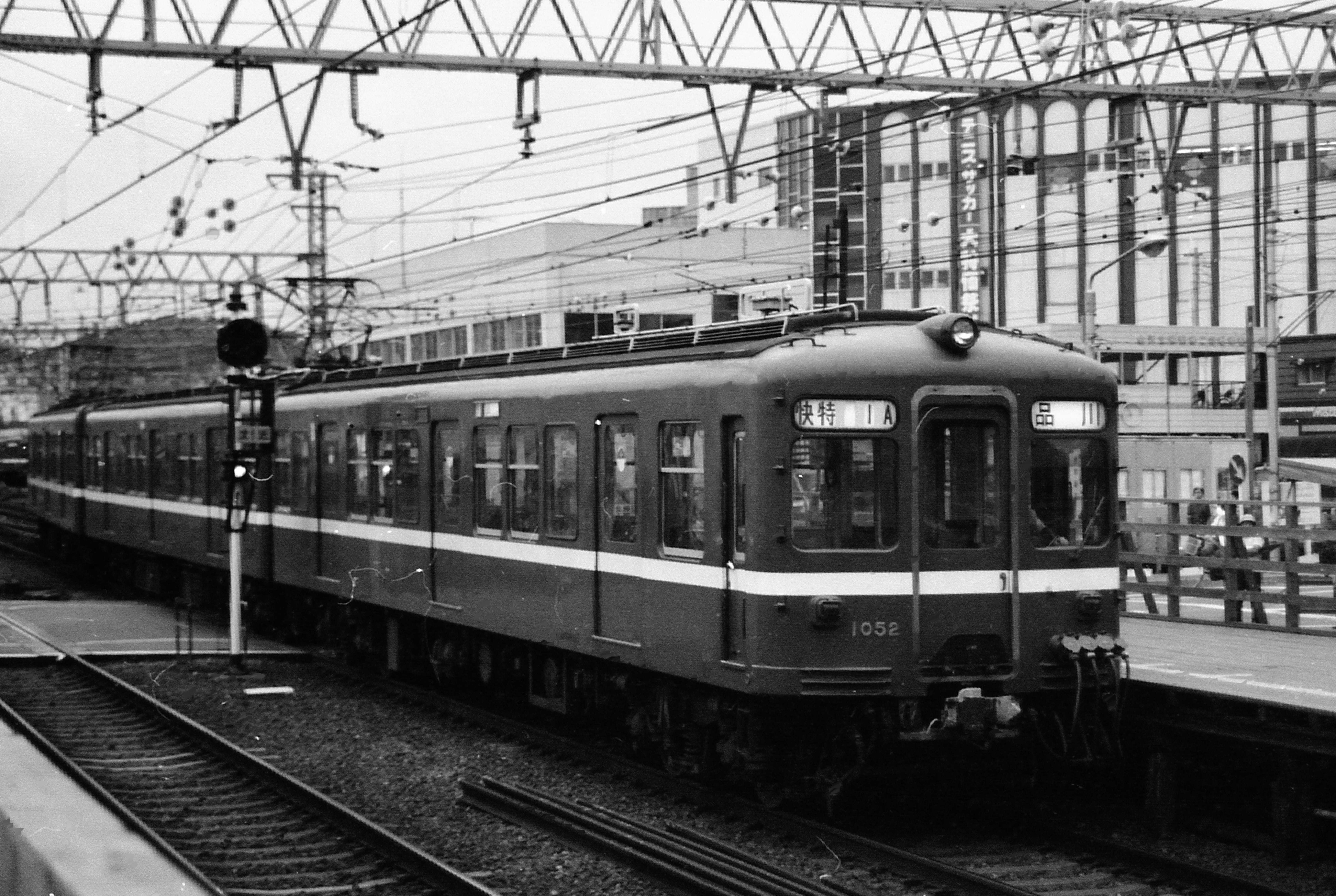 Keikyu unit 1049 running as additional units on an evening limited express. Because this unit was withheld from operation in August 1986 and 12 car operation at evening had started in April 1986, opportunities to be found the unit as a limited express was not very often. Because almost all type 1000 carriages were with air conditioners in spring 1986. it might not be ordinal to find carriages without air conditioners were run as a limited express in June. Taken at Kanazawa bunko station.